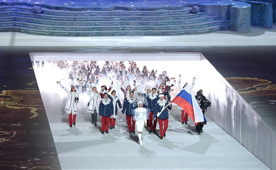 2014 Winter Olympics opening ceremony (2014-02-07)